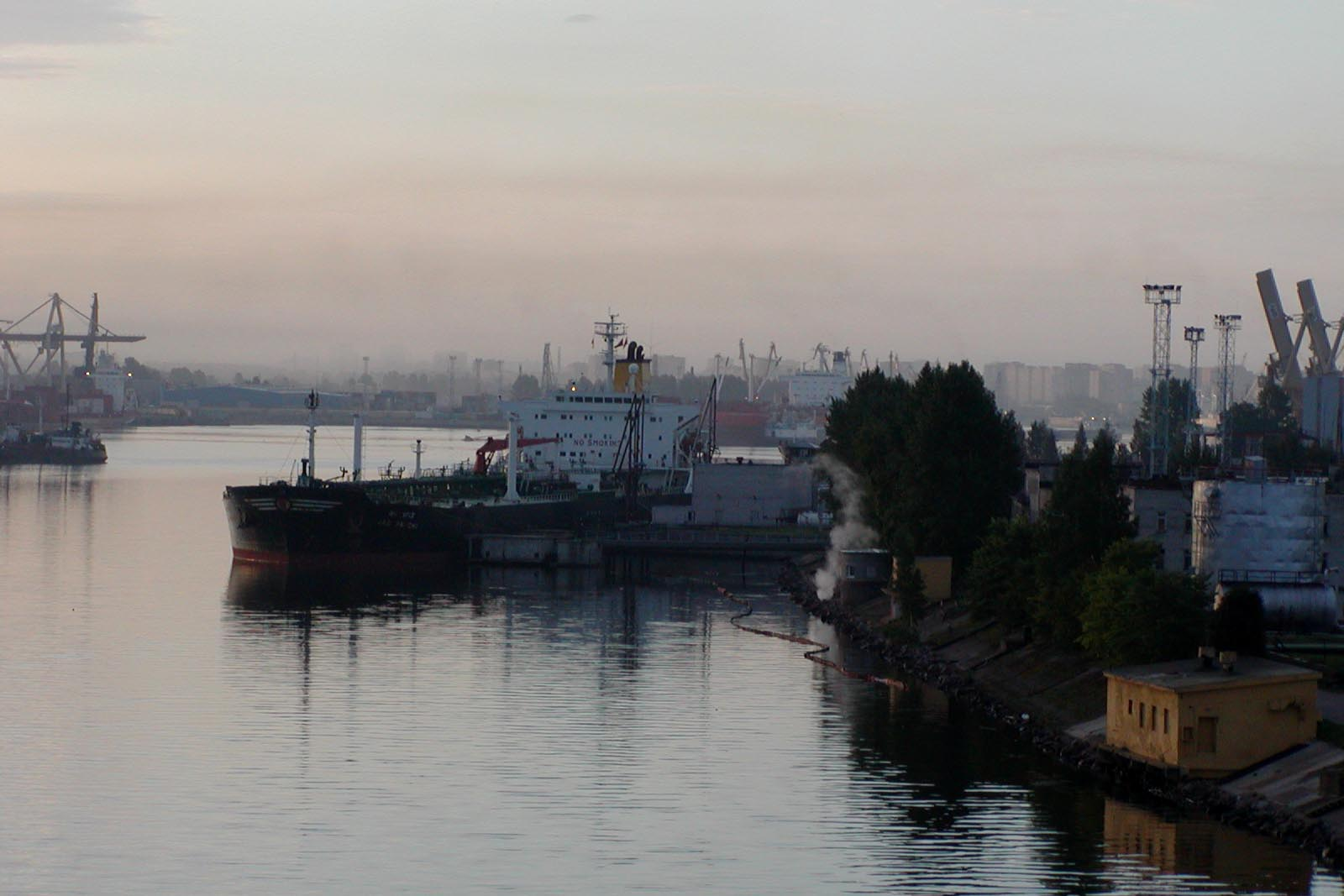 Photo of Saint Petersburg port activity in early morning